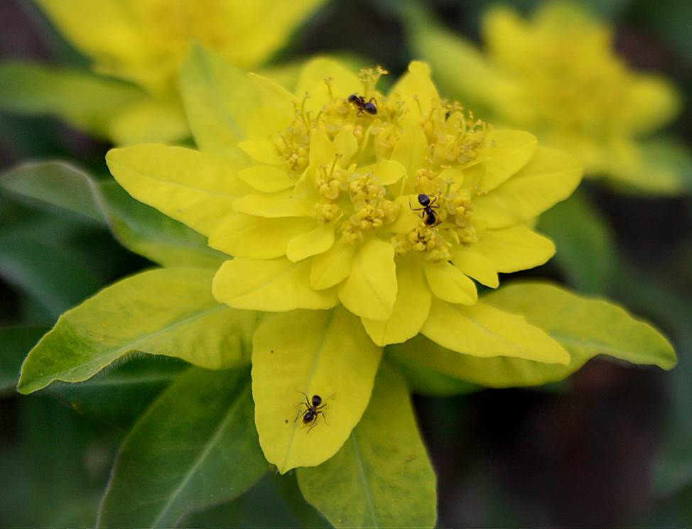 Brno,Euphorbia epithymoides, collect of plants Gymnázium Brno-Řečkovice